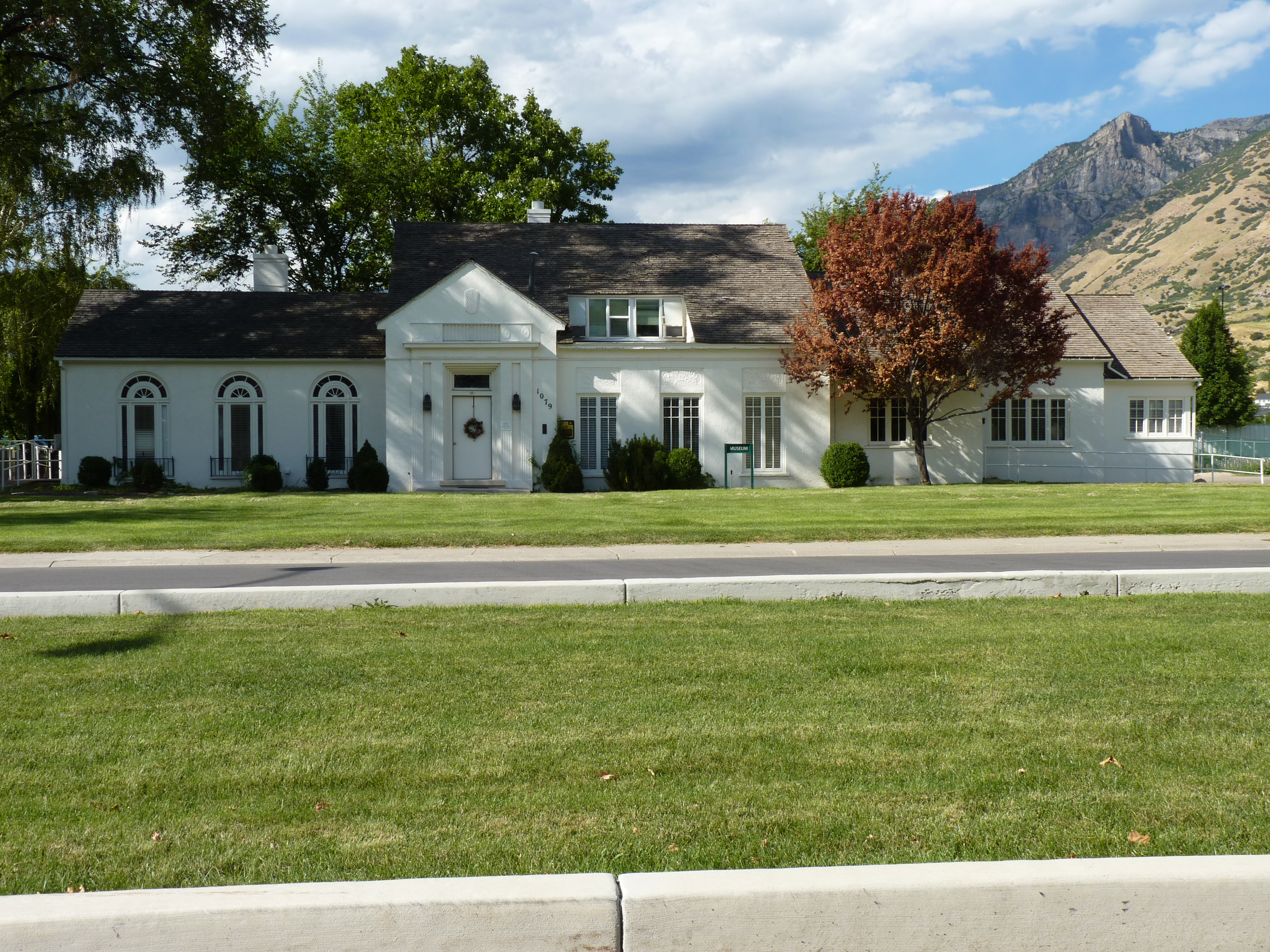 The Superintendent's Residence at the Utah State Hospital is located at 1079 East Center Street. It is on both the Provo City Historic Landmarks Registry and the NRHP.